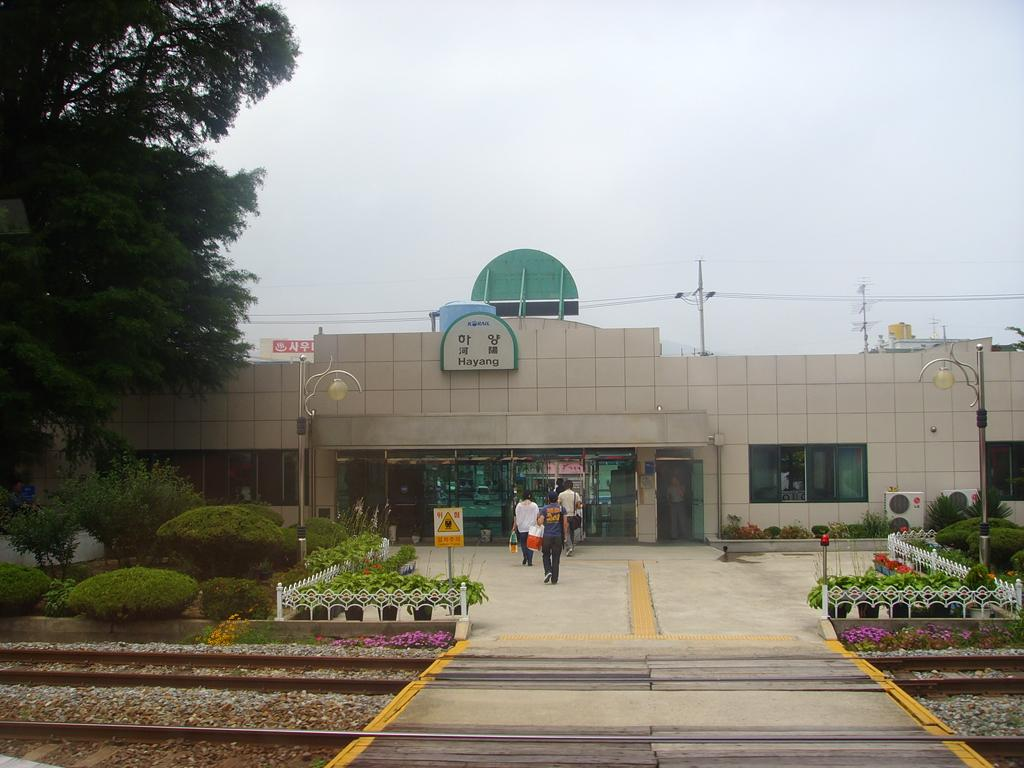 Daegu Line Hayang Station